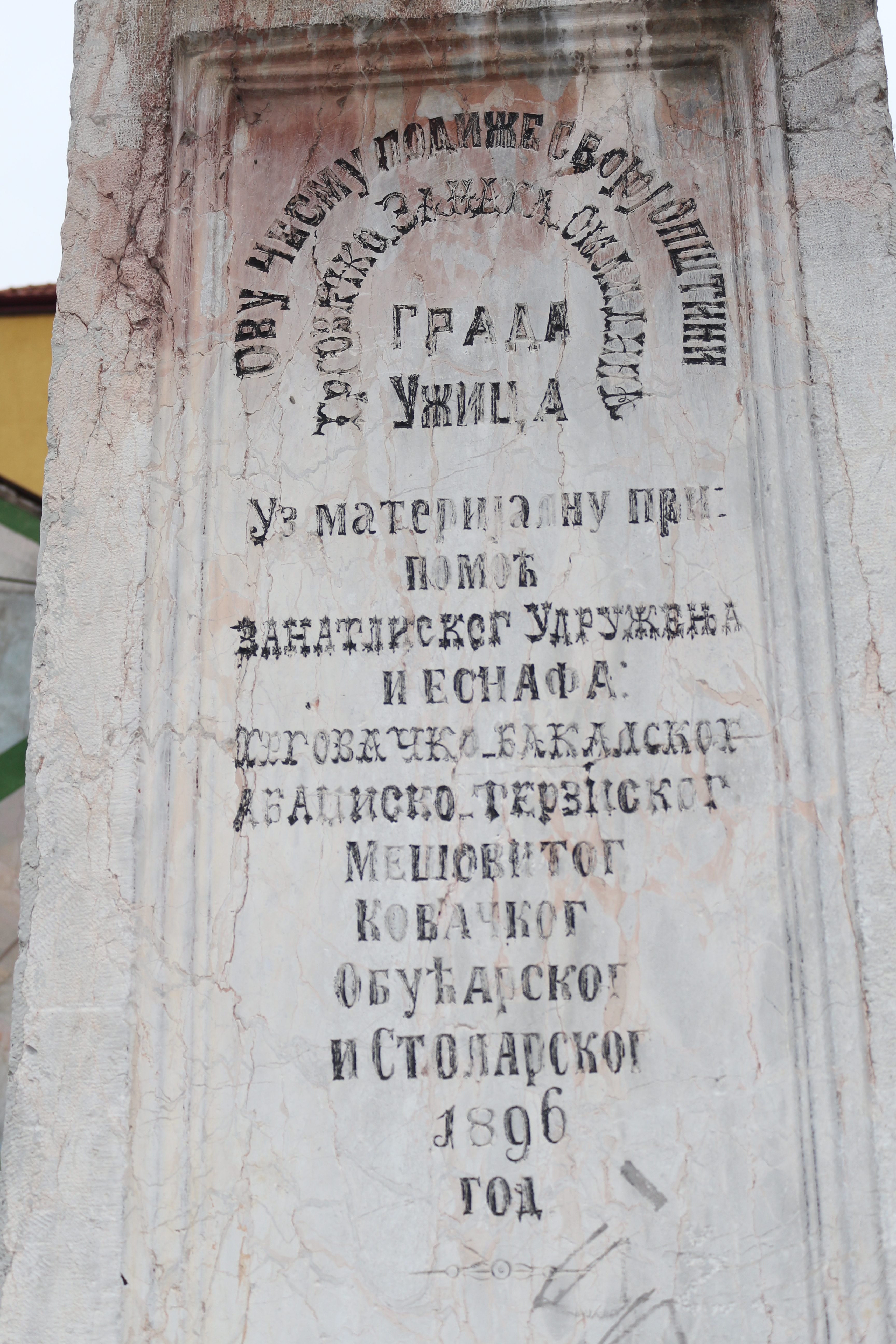 Fountain in Uzice